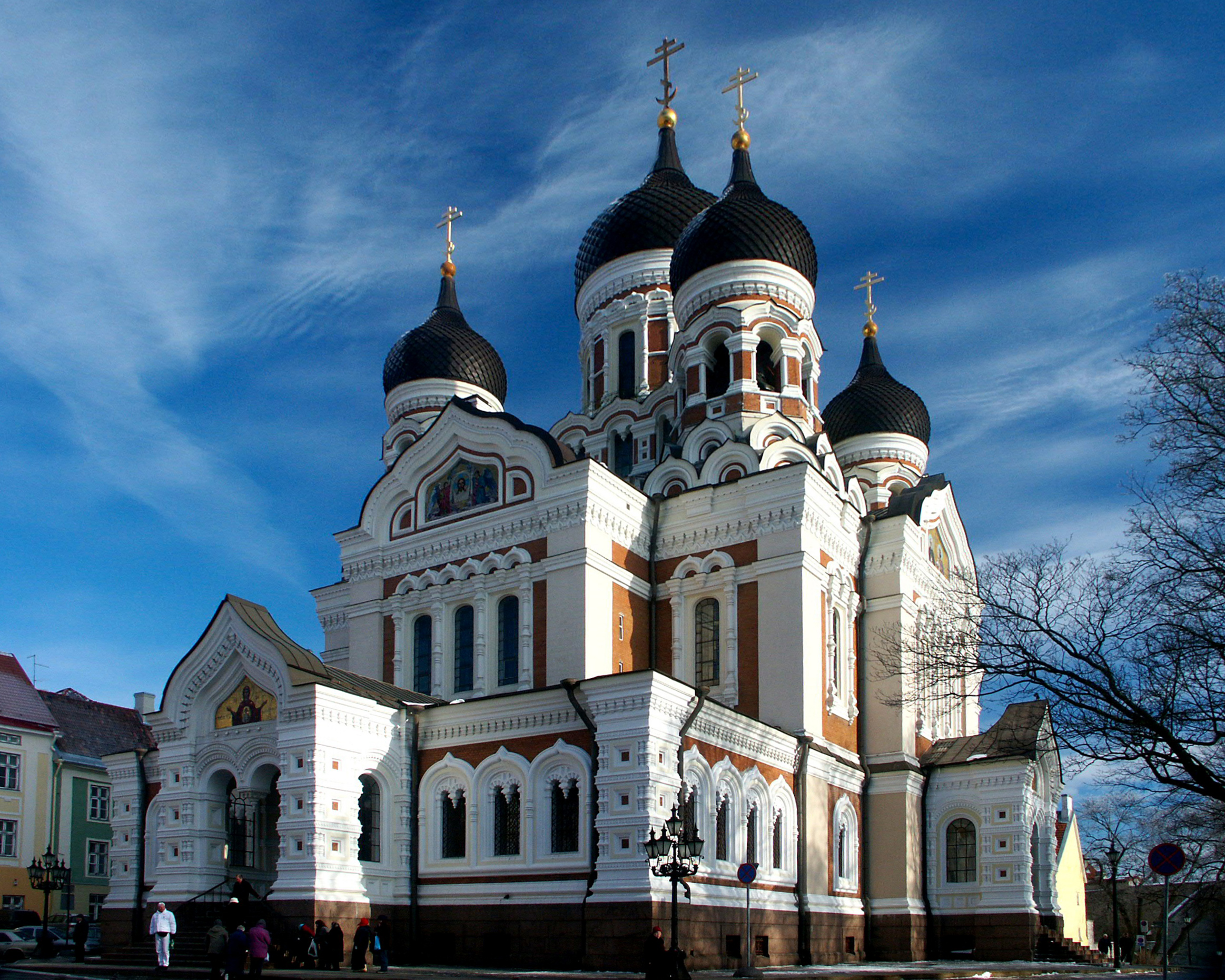 Alexander Newski Cathedral in Tallinn (Estonia)